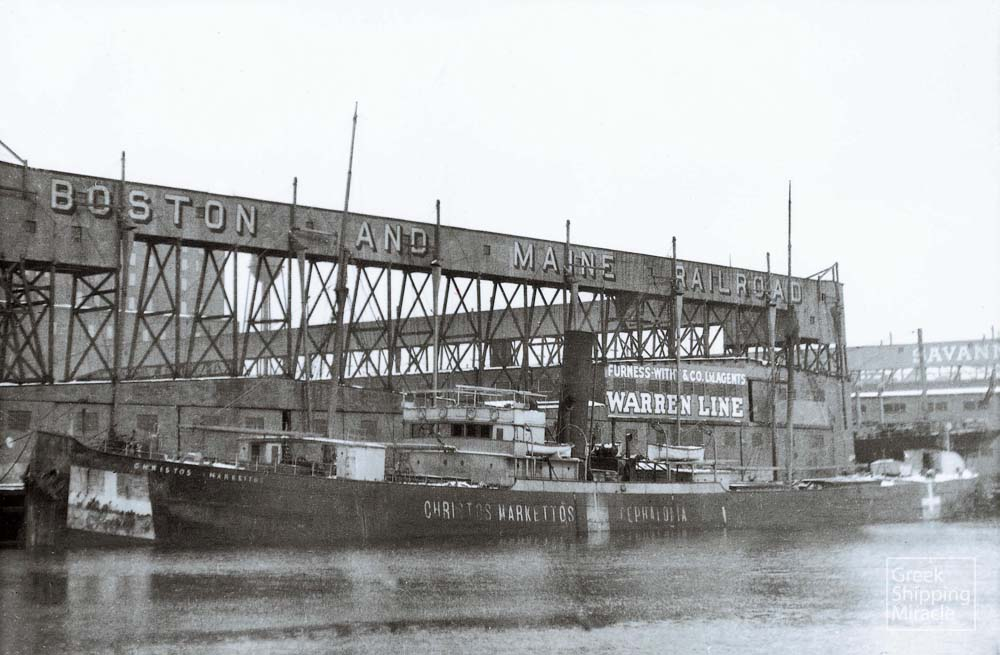 Greek steamship «CHRISTOS MARKETTOS ». Sunk by German submarine January 2, 1918